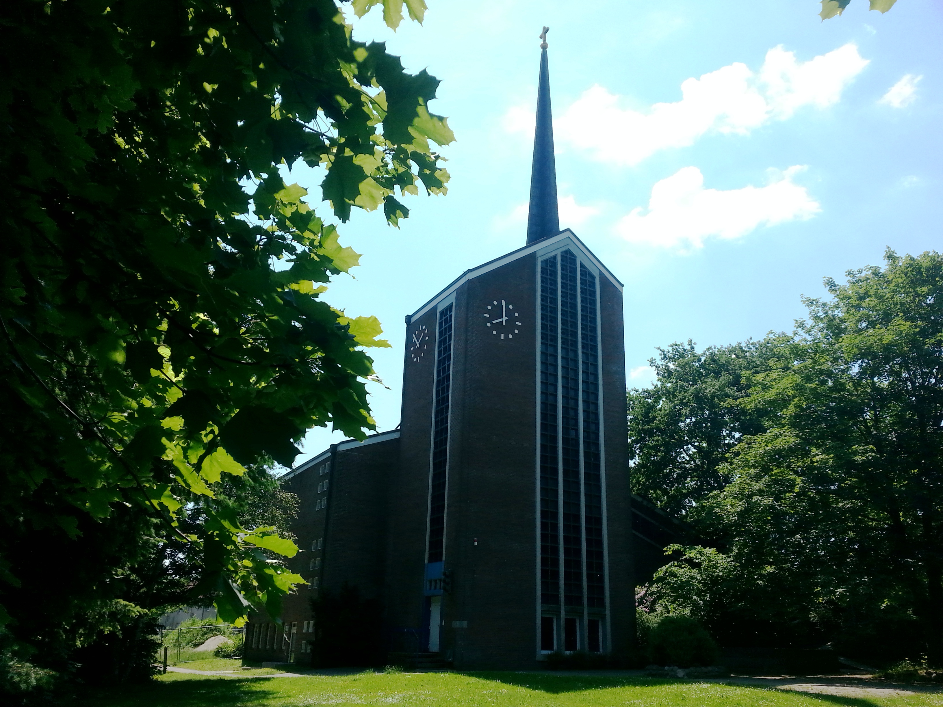 The Evangelical Lutheran Mark Church in Stade, built from 1963 to 1965 in Hahle, a locality of Stade. Seen from North.